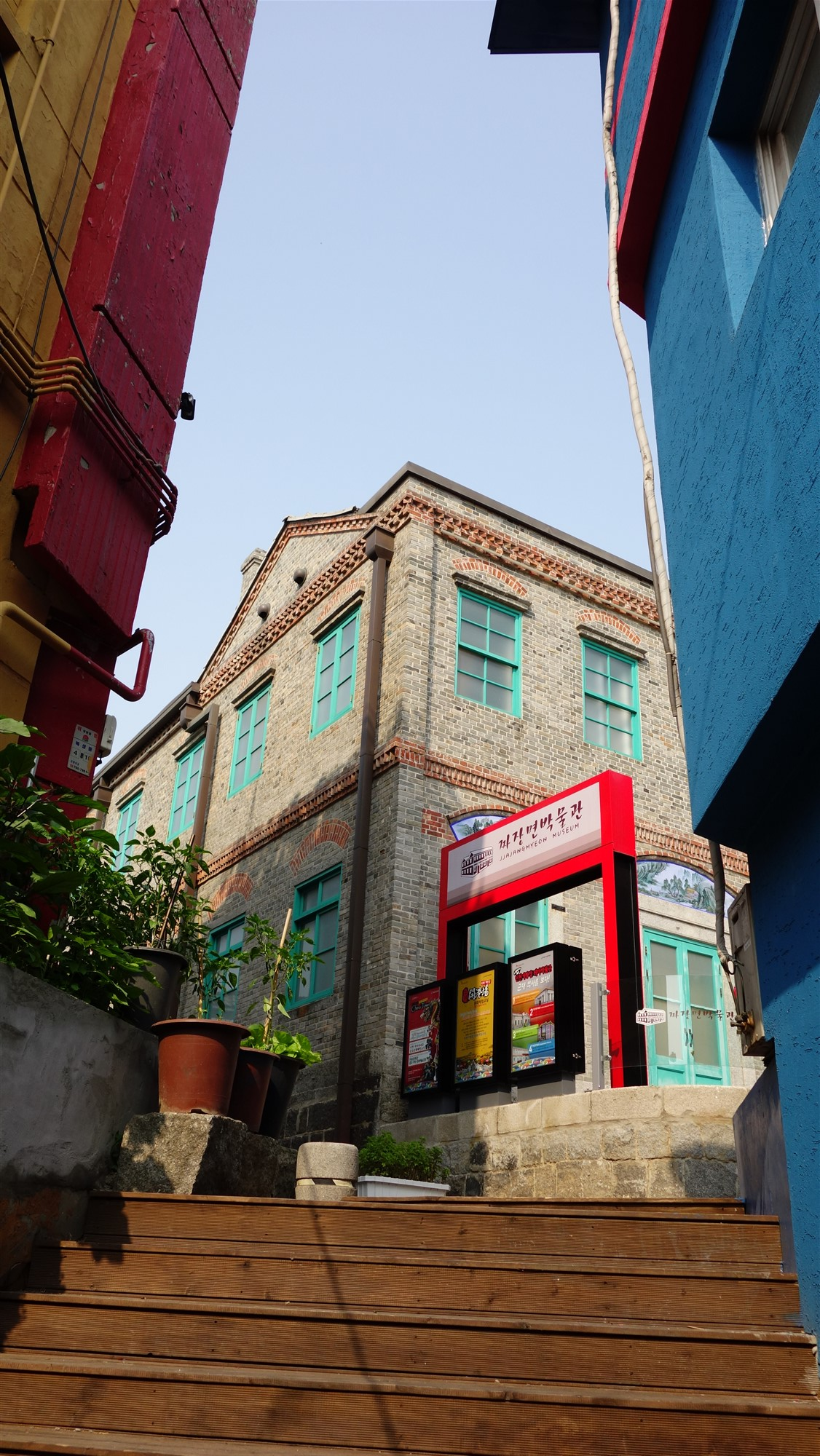 Buildings in Chinatown in Incheon, South Korea